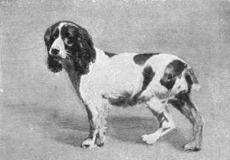 The English Springer Spaniel "Fansome", published in 1903.